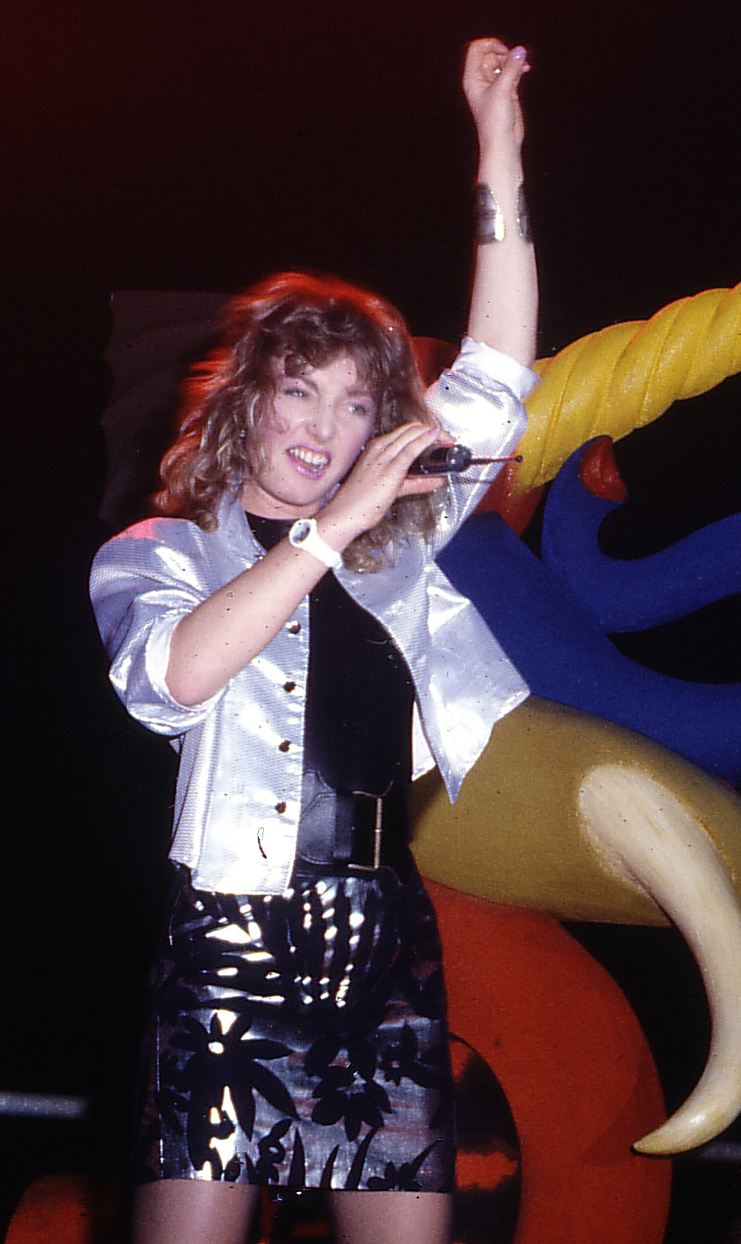 Jane Bogaert - live 1987